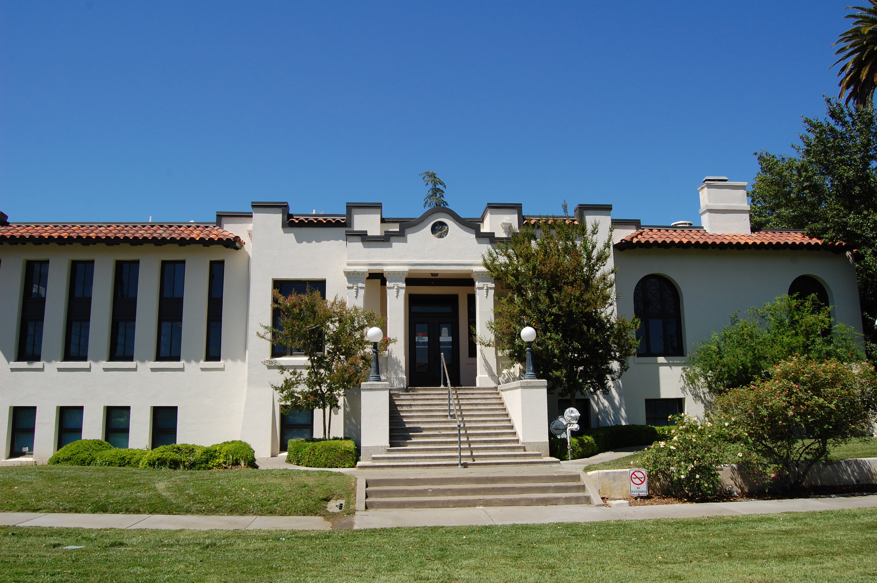 The Woodland Public Library in Woodland, California. The building is listed on the National Register of Historic Places and is a Carnegie funded library.